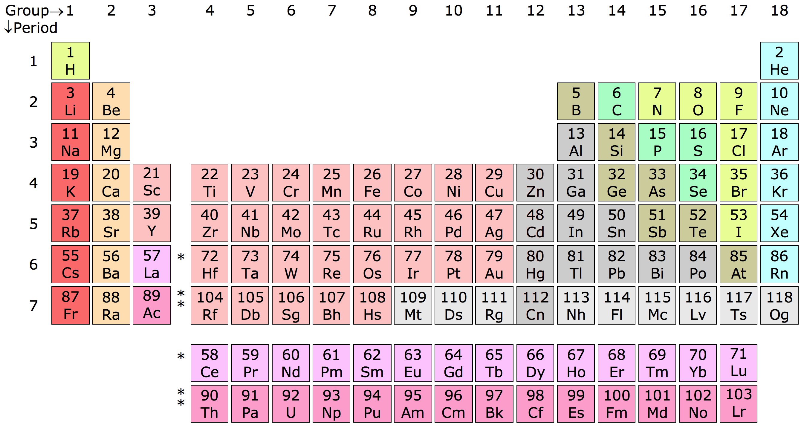 18-column medium-long periodic table with La and Ac in group 3, and a gap to accommodate the rest of the lanthanides and actinides